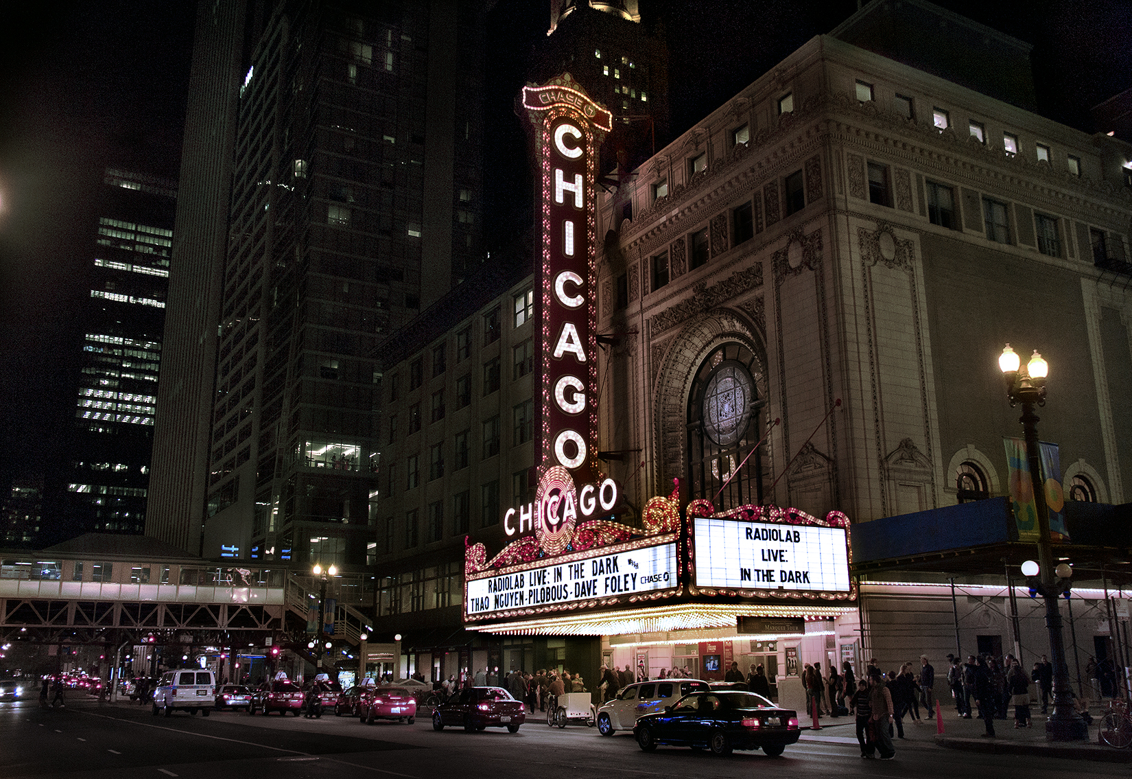 Balaban and Katz Chicago Theatre